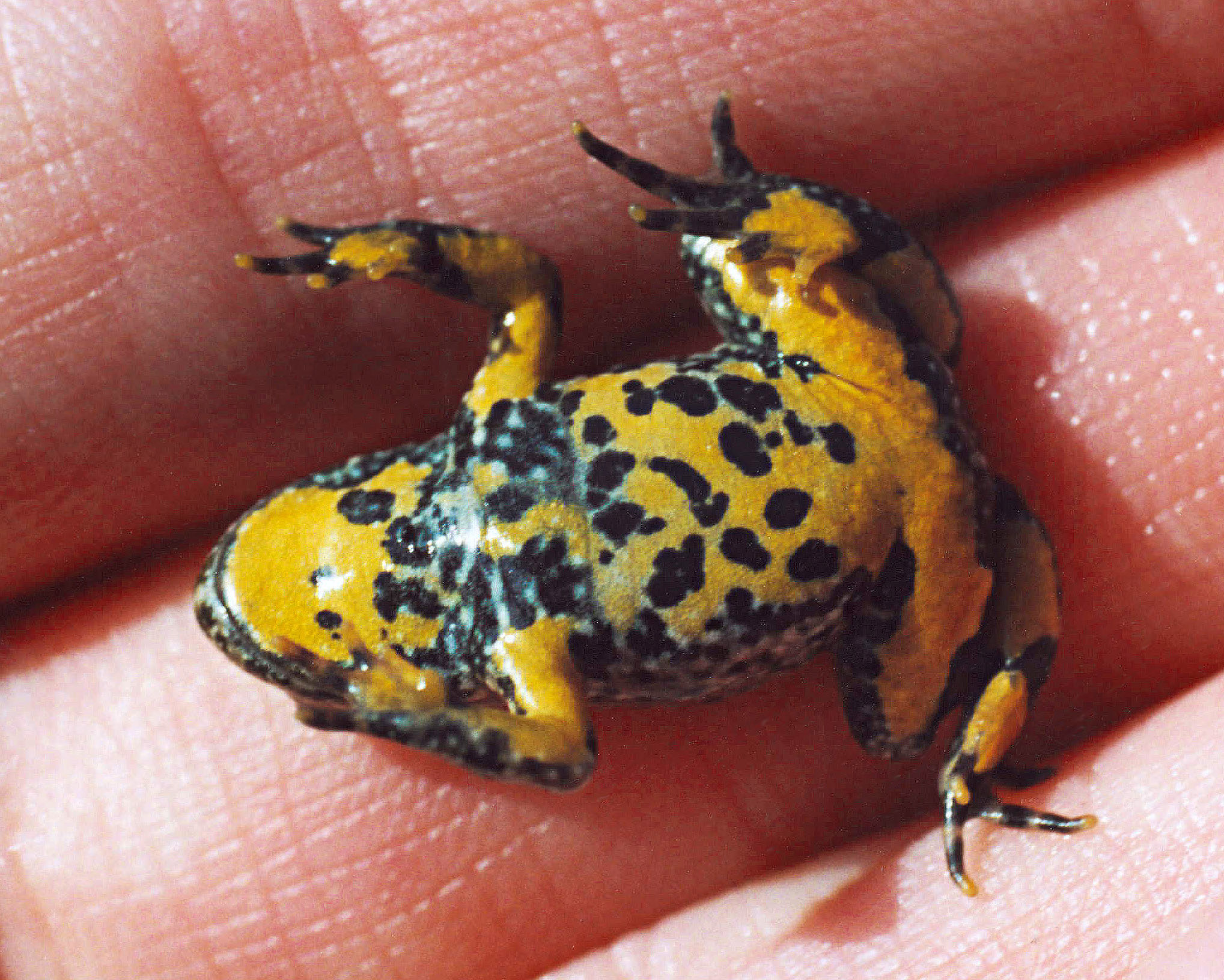 Ventral side of a Yellow-bellied Toad (Bombina variegata). This juvenile specimen has been turned around by the author to demonstrate the coloration.